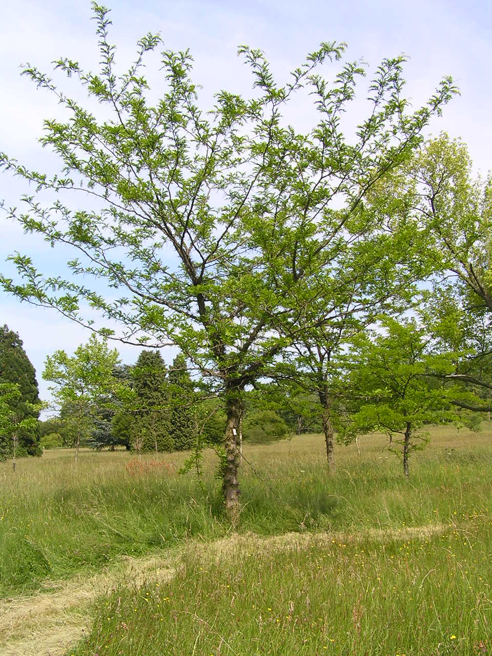 Gleditsia ×texana in the arboretum of Chèvreloup in Rocquencourt (Yvelines), France.